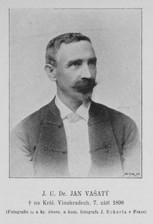 Portrait of Jan Vašatý (1836-1898), Czech lawyer and politician.